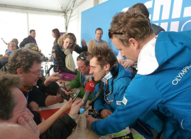 Men's downhill winner, Matthias Mayer of Austria, speaks to reporters at the dais after his news conference, Rosa Khutor Alpine Center, near Krasnaya Polyana, Russia, Feb. 9, 2014. (Parke Brewer/VOA).